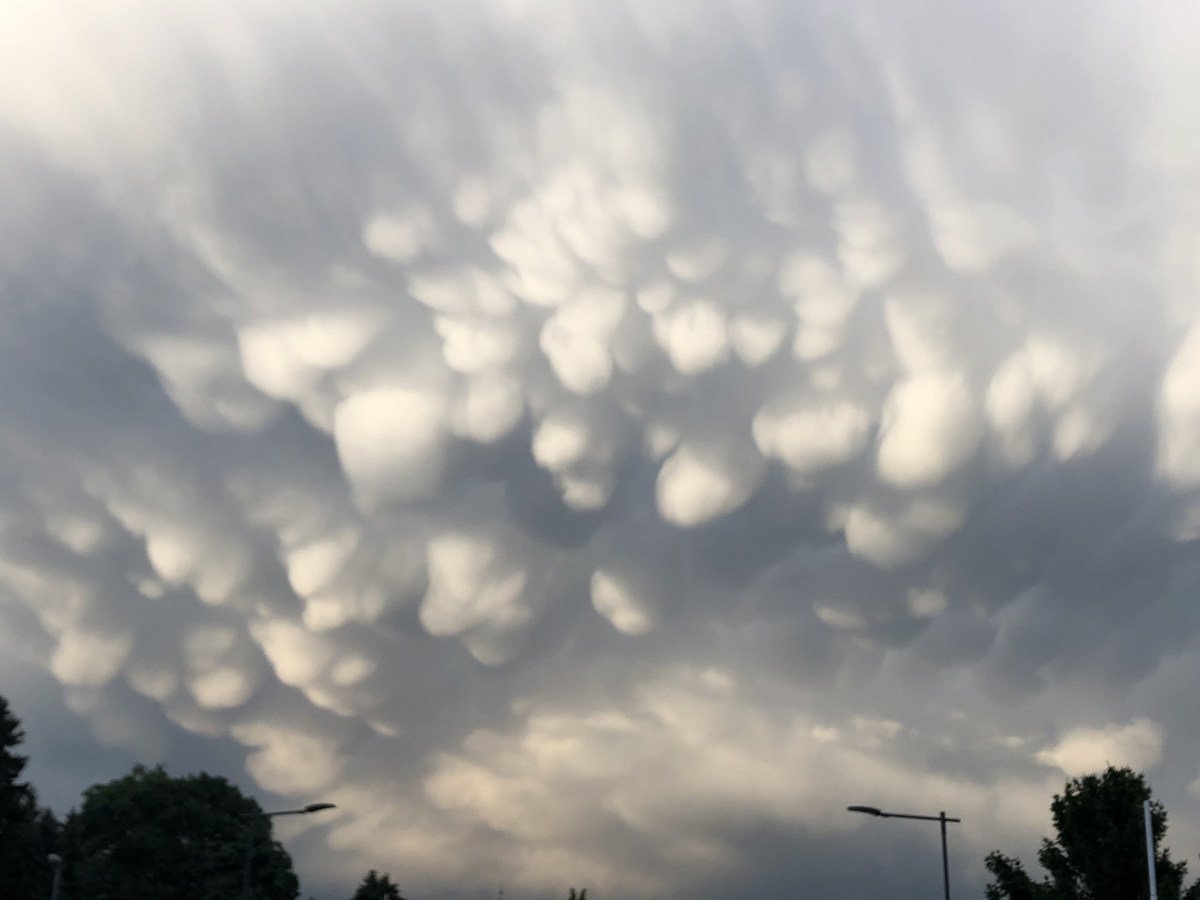 Mammatus